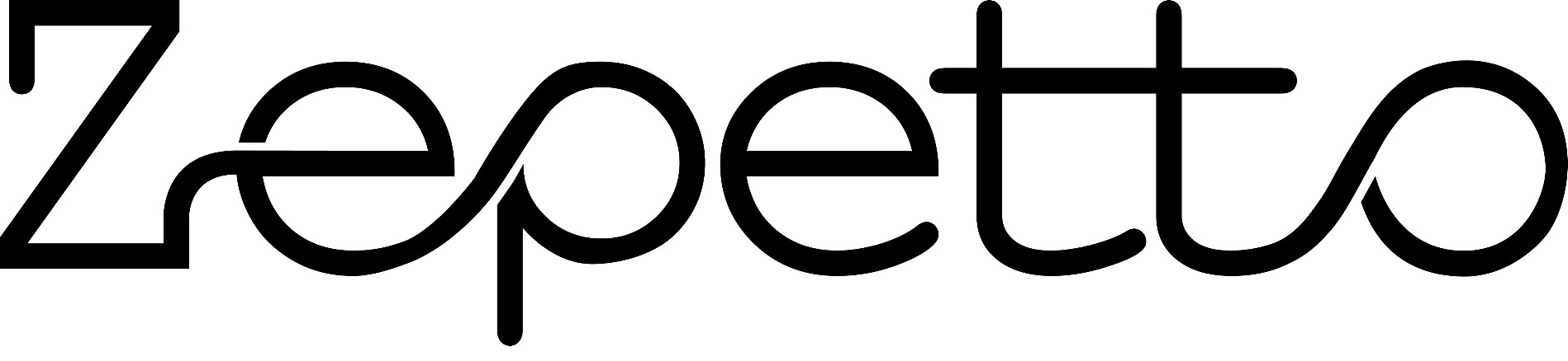 zepetto company logo